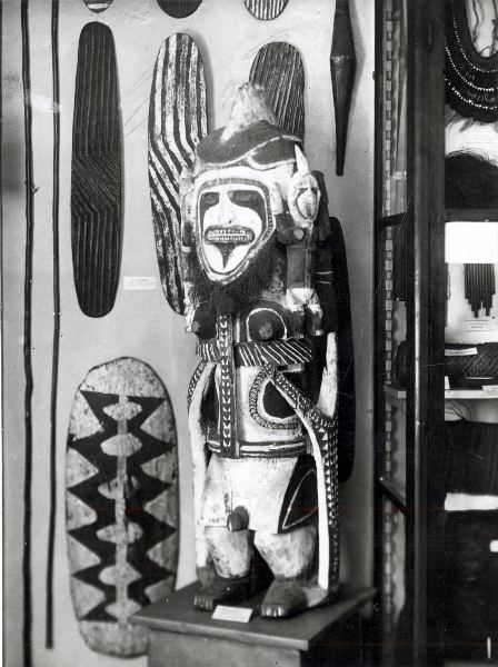 Interior from the exhibition Exotic Art and Handicraft